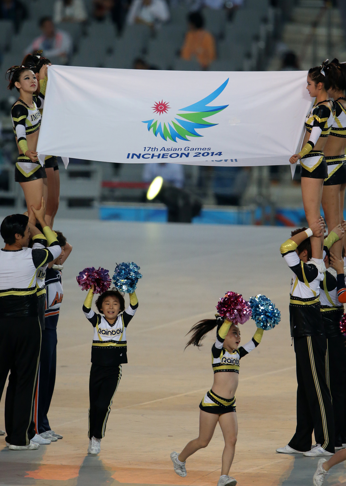 2014 Asian Games opening ceremony